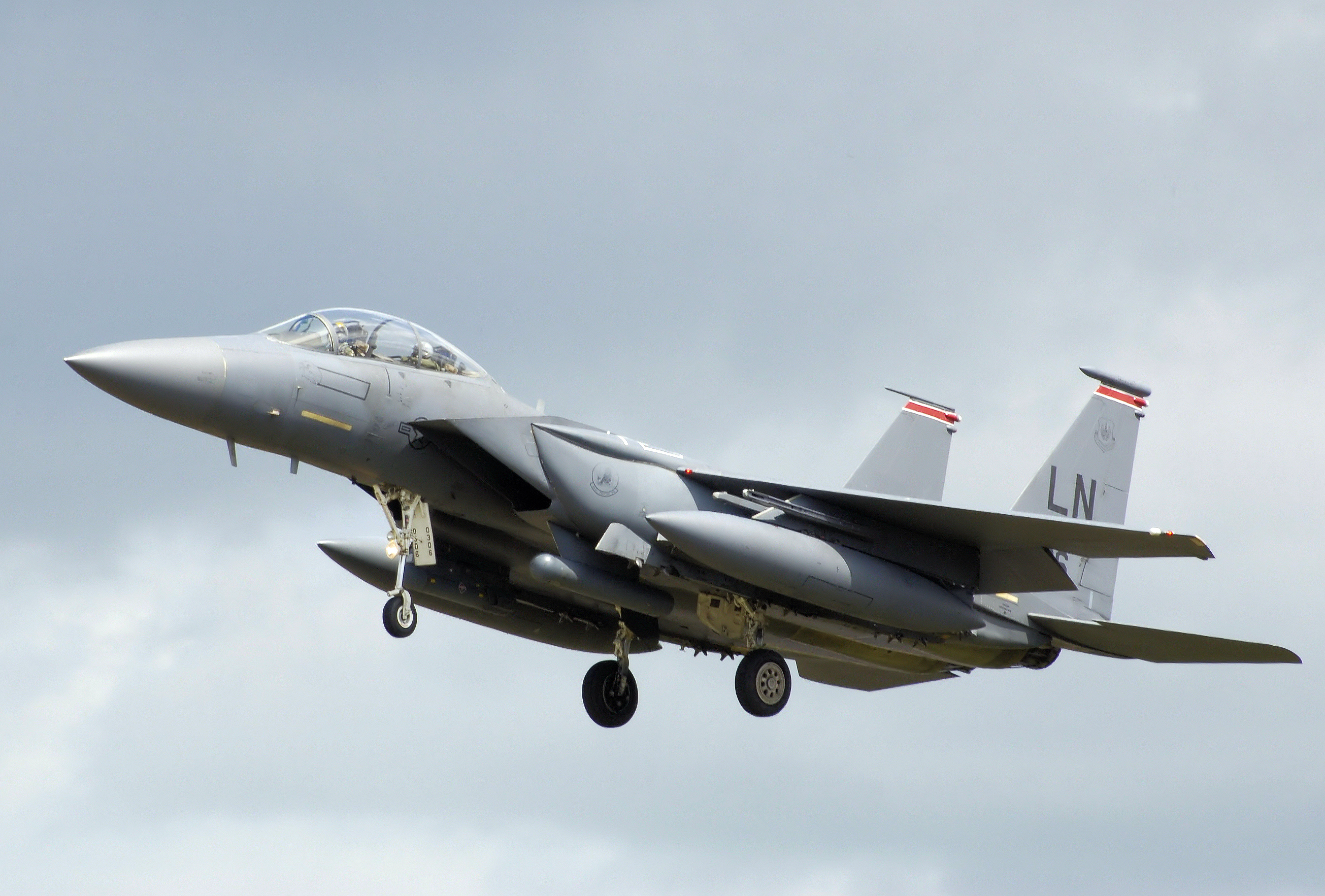 McDonnell Douglas F-15E Strike Eagle lands at the 2008 Royal International Air Tattoo, RAF Fairford, Gloucestershire, England. Taken at RIAT Fairford on the Thursday before the weekend show days. Later, both show days (Saturday and Sunday) were cancelled because of waterlogged car parks. Photographed by Adrian Pingstone in July 2008 and placed in the public domain.